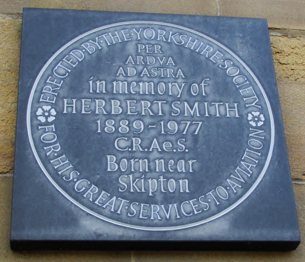 Herbert Smith plaque, High Street. Smith was an aircraft designer. While working for the Sopwith Aviation Co. he designed the Sopwith Camel, Pup, Triplane and Snipe. He later moved to Mitsubishi, Japan, where he designed several aircraft for the Japanese navy. The plaque is displayed on the external wall of the Town Hall.